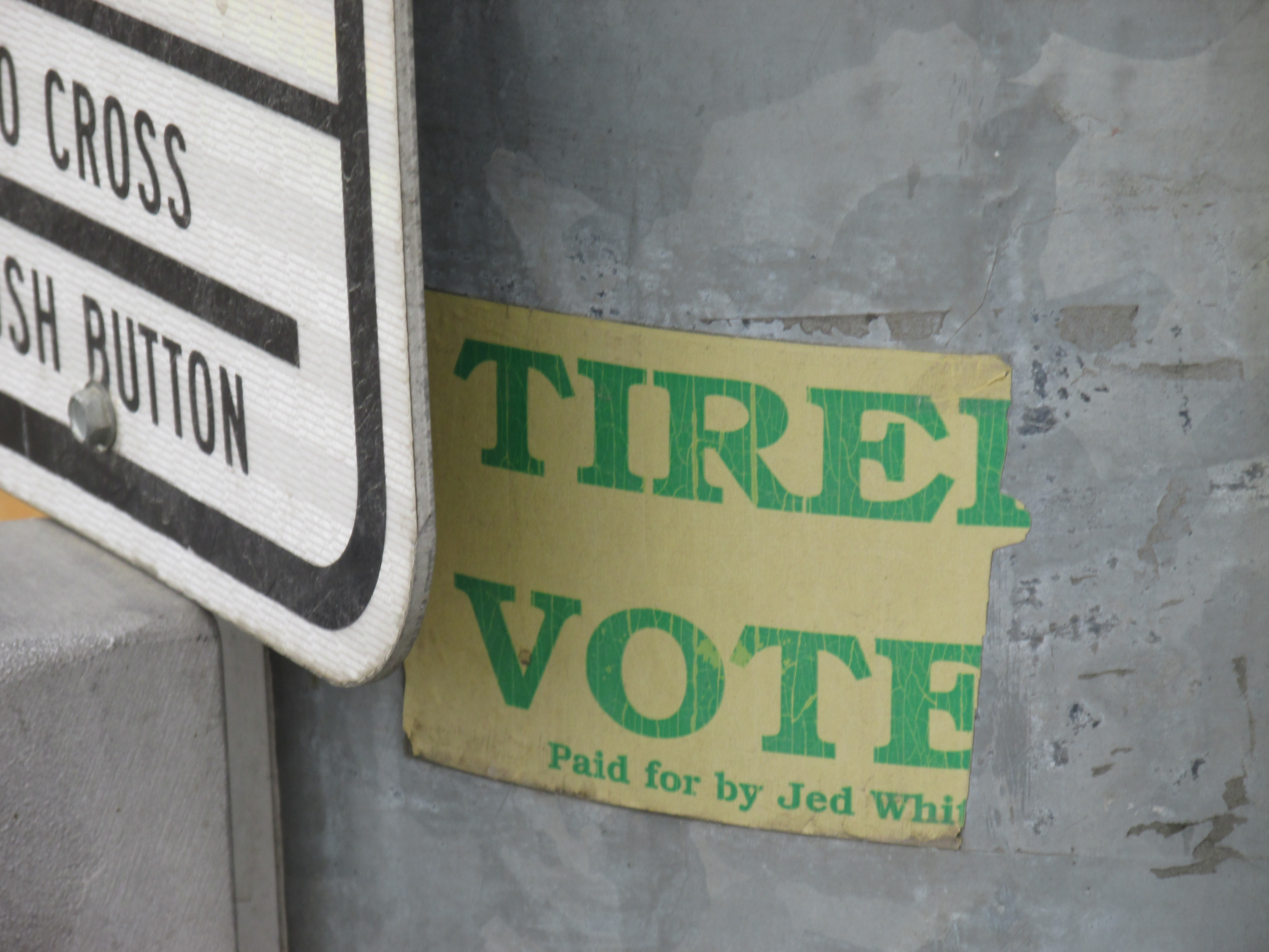 Remaining fragment of a bumper sticker issued by Green Party nominee Jed Whittaker during his 1996 campaign for United States Senate, found on a light pole on South Cushman Street in Fairbanks, Alaska. His opponent was incumbent Ted Stevens; the bumper sticker read "Tired of Ted? Vote for Jed!". Because of various controversies involving Democratic nominee Theresa Obermeyer, she wound up being outpolled by Whittaker in the general election results.